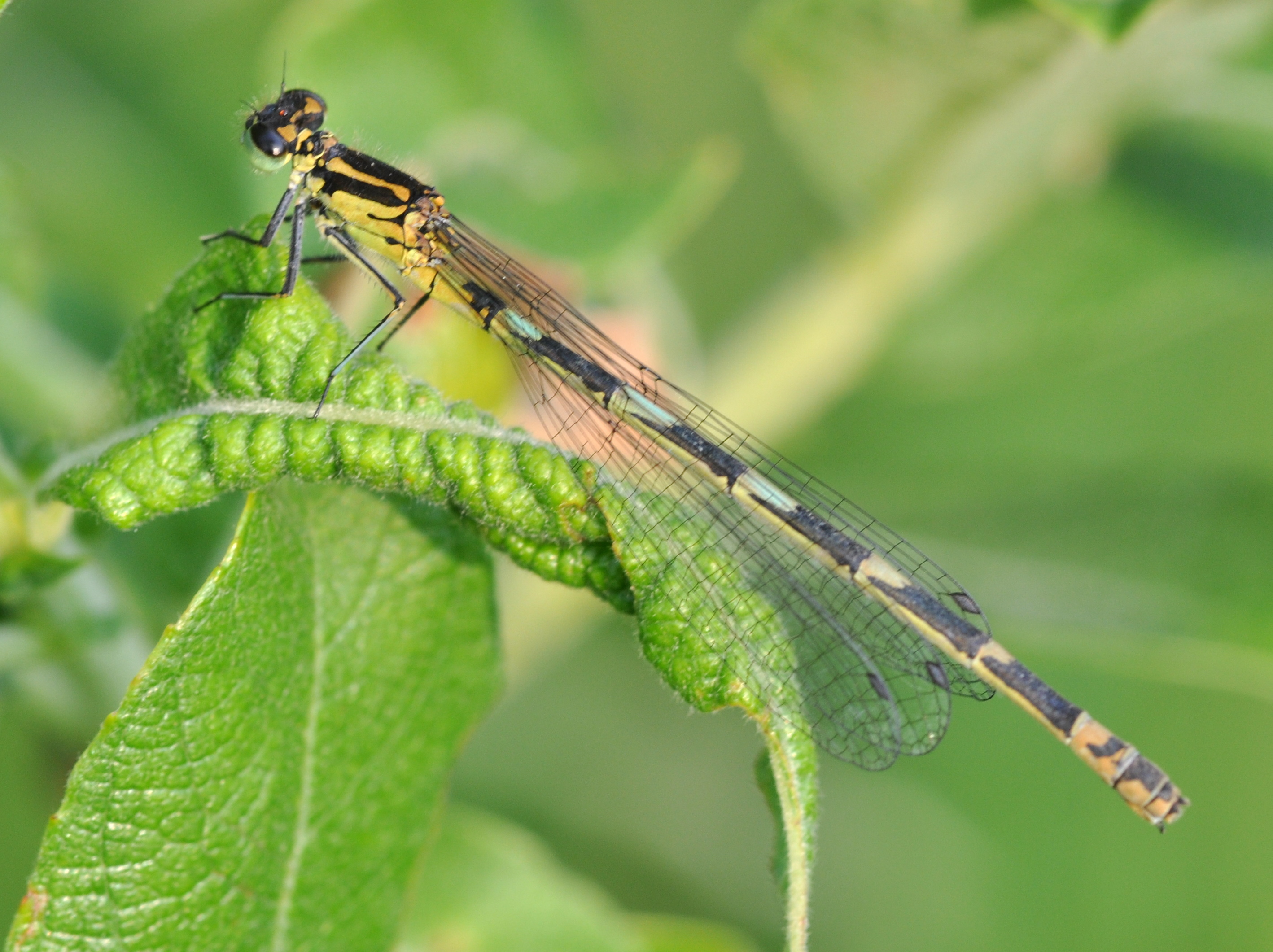 Variable Damselfly female with orange color in Kirchwerder, Hamburg.